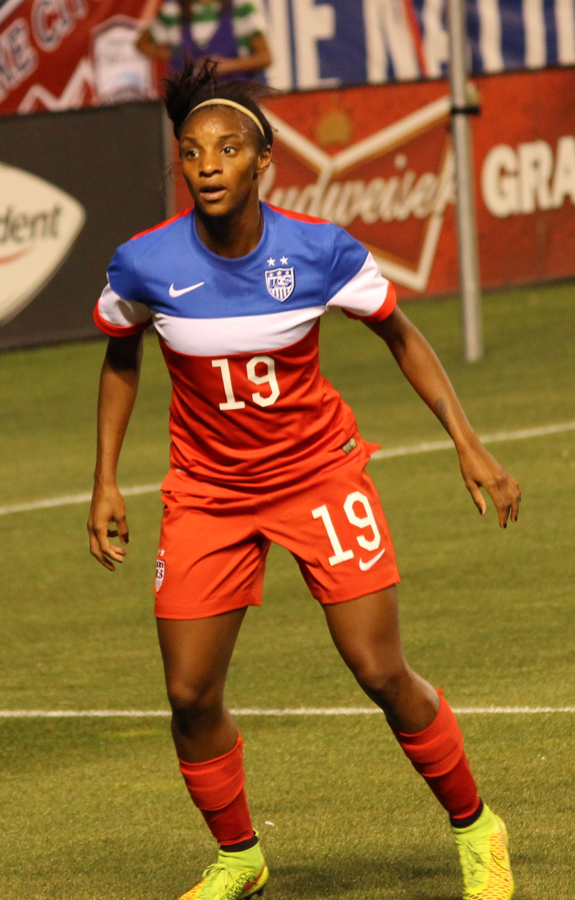 Crystal Dunn with the United States women's national soccer team in a friendly against Mexico, on September 14, 2014 at Rio Tinto Stadium in Salt Lake City (Sandy), Utah.